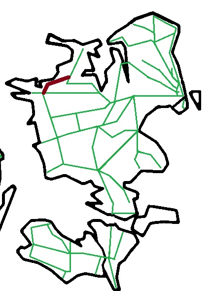 Map of railways on Zealand in Denmark with the private railway Hørve-Værslev Jernbane in brown.